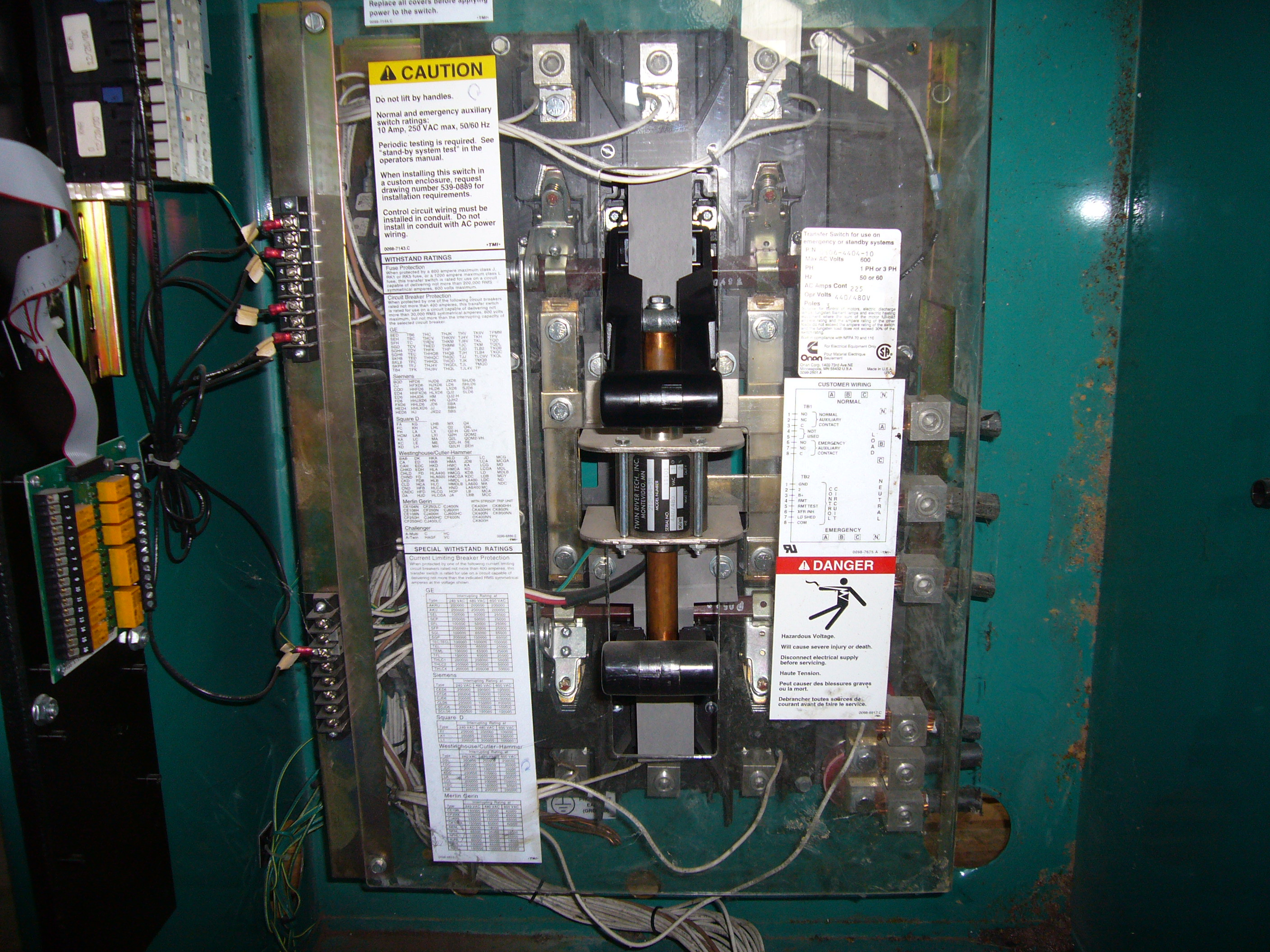 This is a Cummins Onan manufactured transfer switch, a necessary component to most power systems.